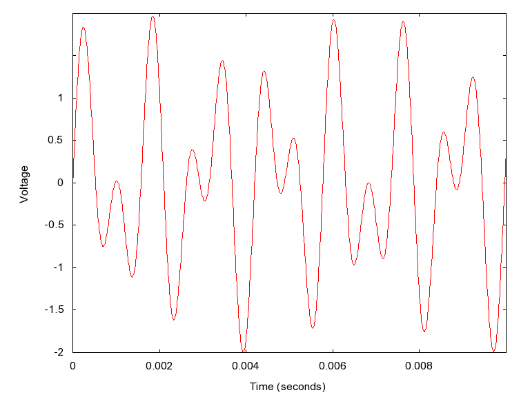 Ten milliseconds of the voltage signal for the two tones that make up the TouchTone button 1.